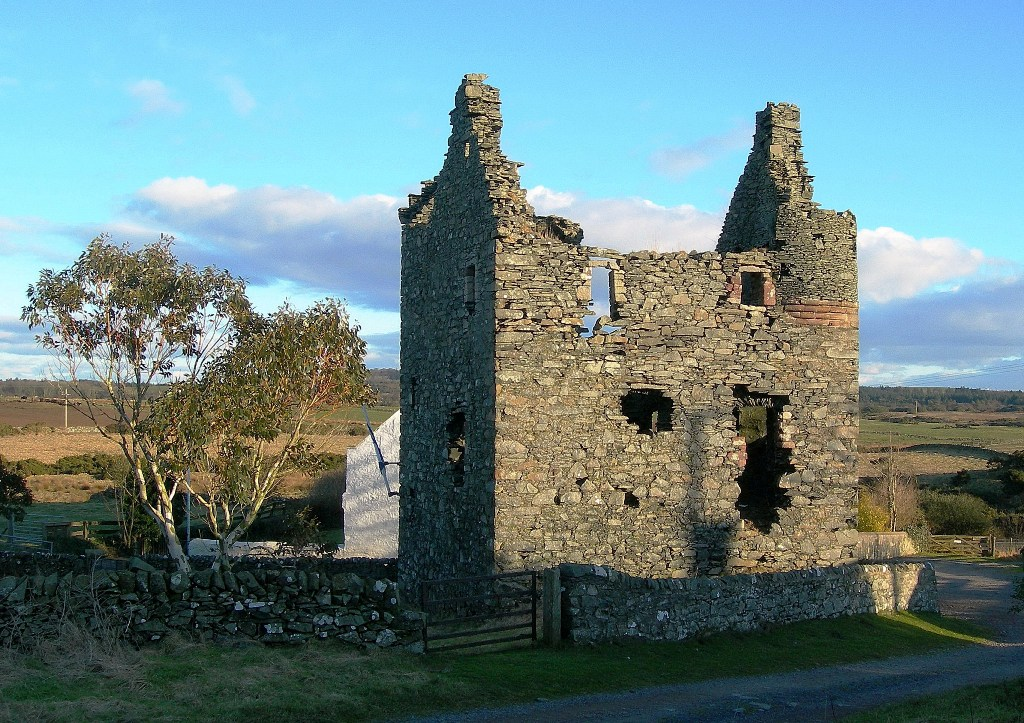 Galdenoch Castle Dated 1547, this was a small 2-storey tower with attic accommodation. It was the home of Gilbert Agnew of Lochnaw until 1570. (Source: "The Castles of South-West Scotland", by Mike Salter)